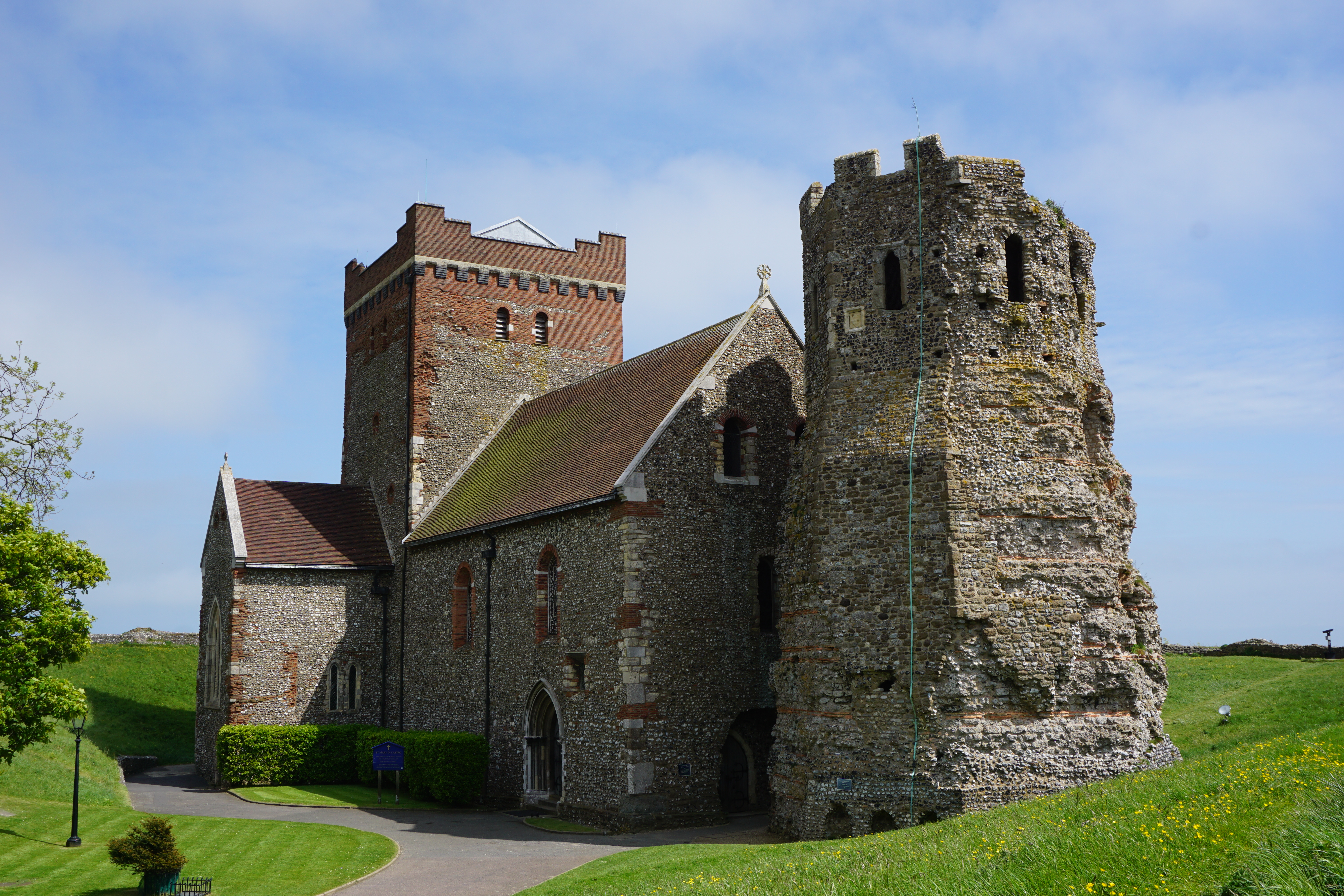 Church and Lighthouse stand at the highest point within the castle